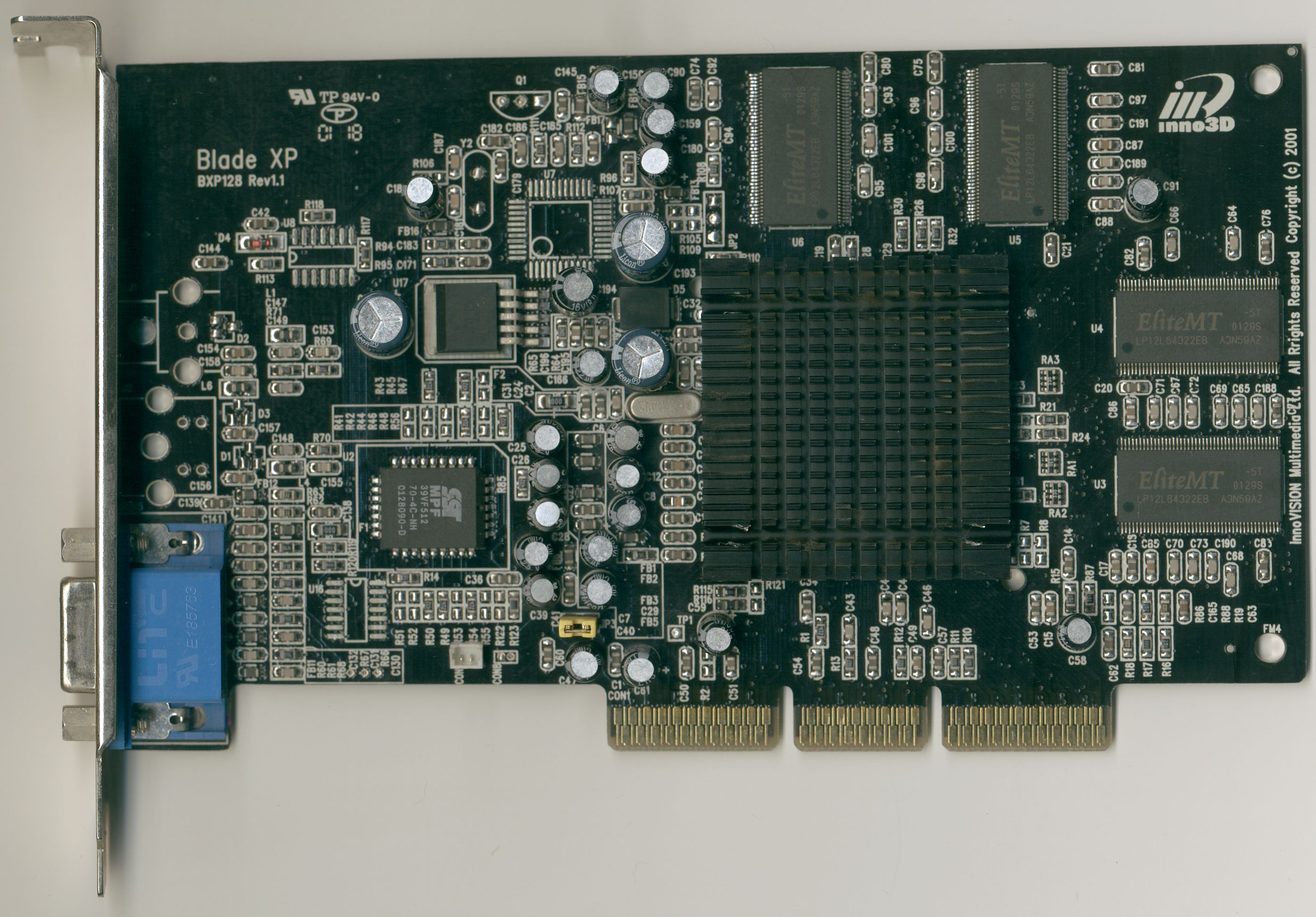 Description : Trident BladeXP AGP 32MB SDRAM Photographer/Painter : Mac3216